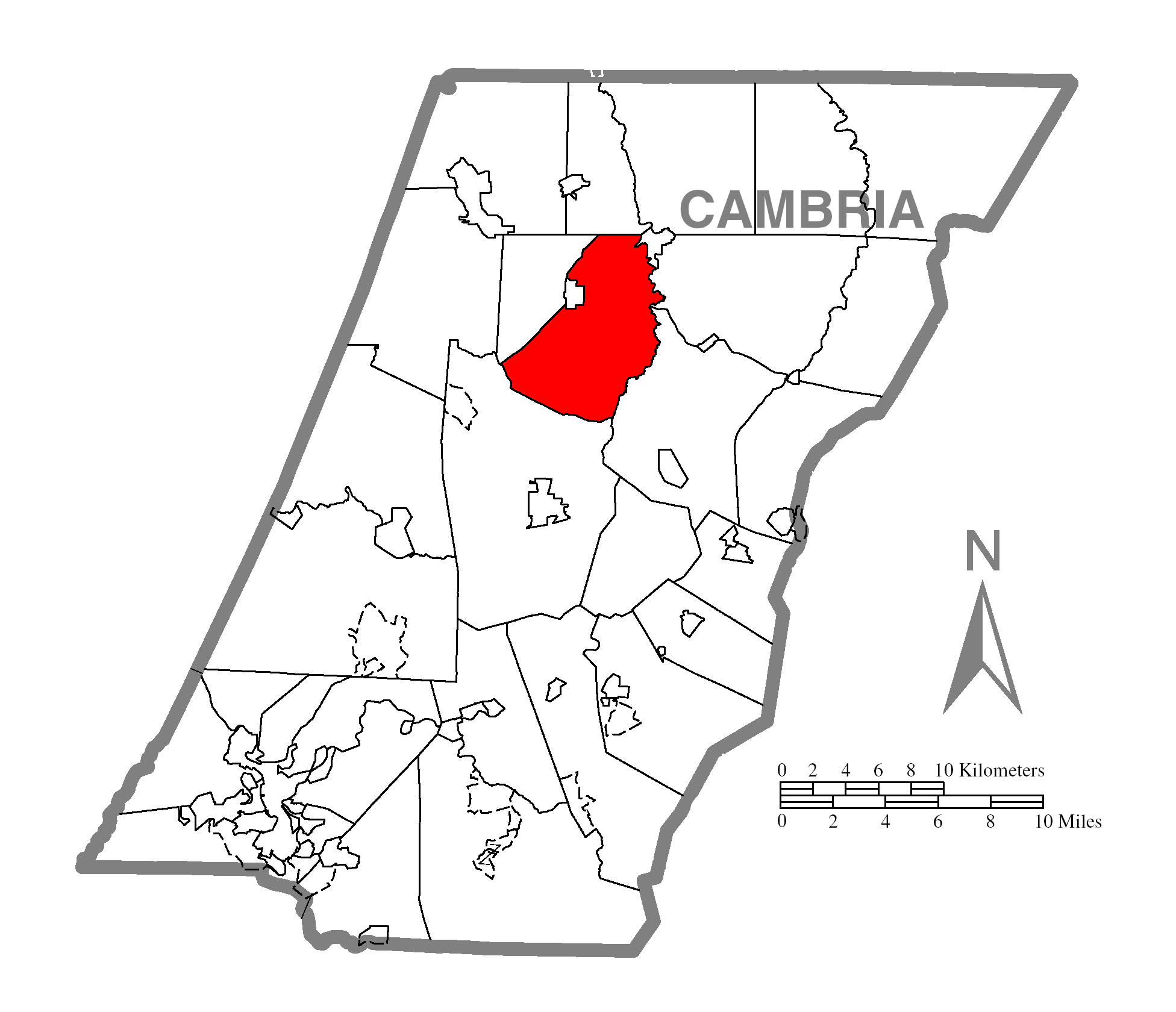 A map of Cambria County showing East Carroll Township, Pennsylvania (alternate) highlighted on the map.